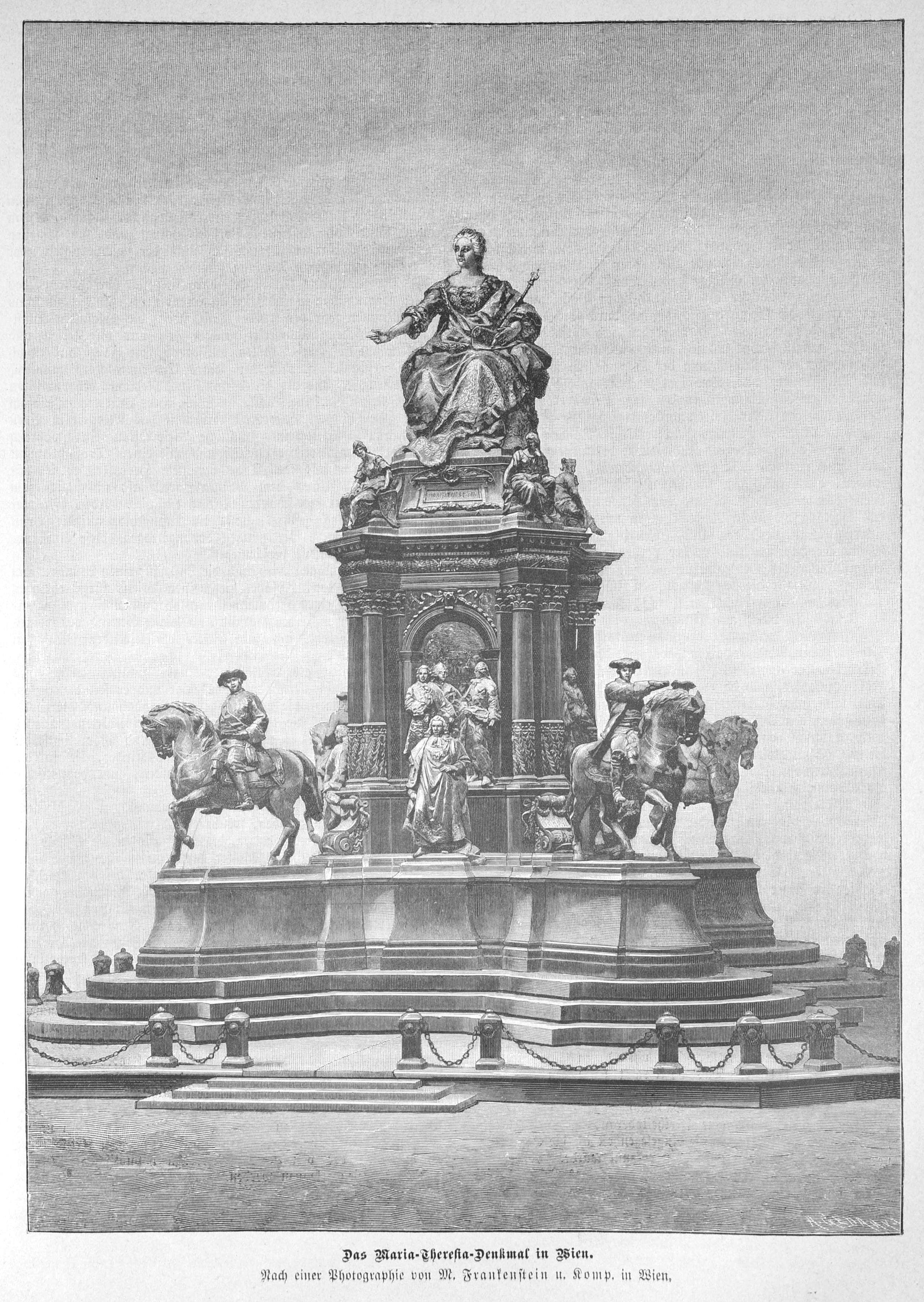 caption: "Das Maria-Theresia-Denkmal in Wien. Nach einer Photographie von M. Frankenstein u. Komp. in Wien."